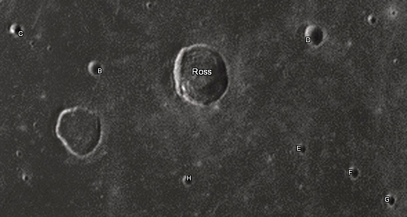 Ross lunar crater as seen from Earth with satellite craters labeled